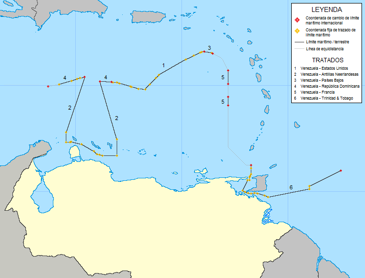 Map of maritime boundaries of Venezuela